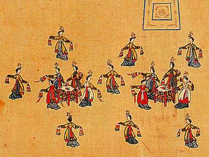 The picture titled "Gojong Imjin Jinyeon Dobyeong" which literally means "Painting screen folder of the royal court feast in Imin year during King Gojong reign" depicts mugo, Korean court drum dance.